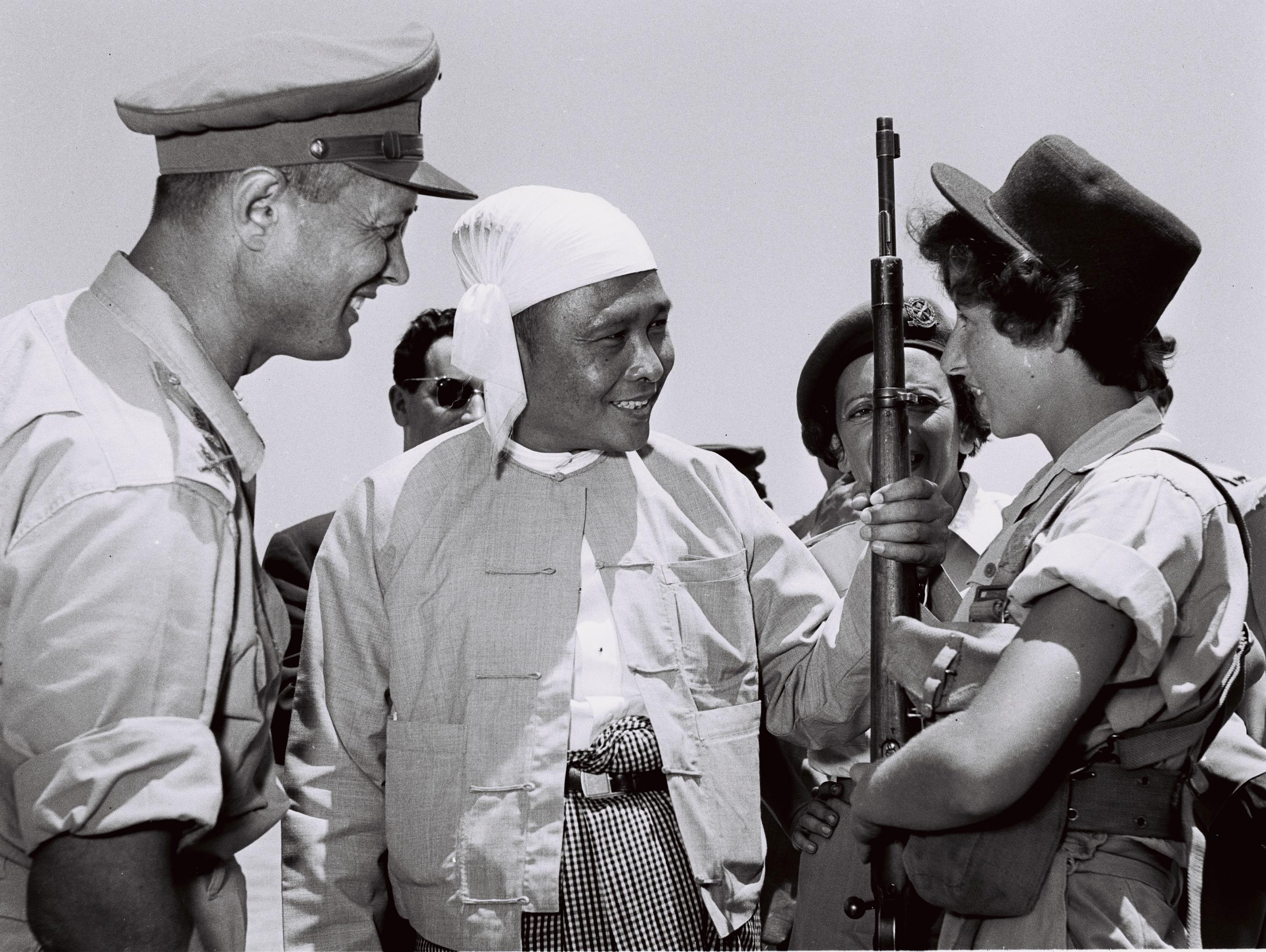 Burmese Prime Minister U Nu visiting an Israeli military base, accompanied by chief of staff Moshe Dayan.